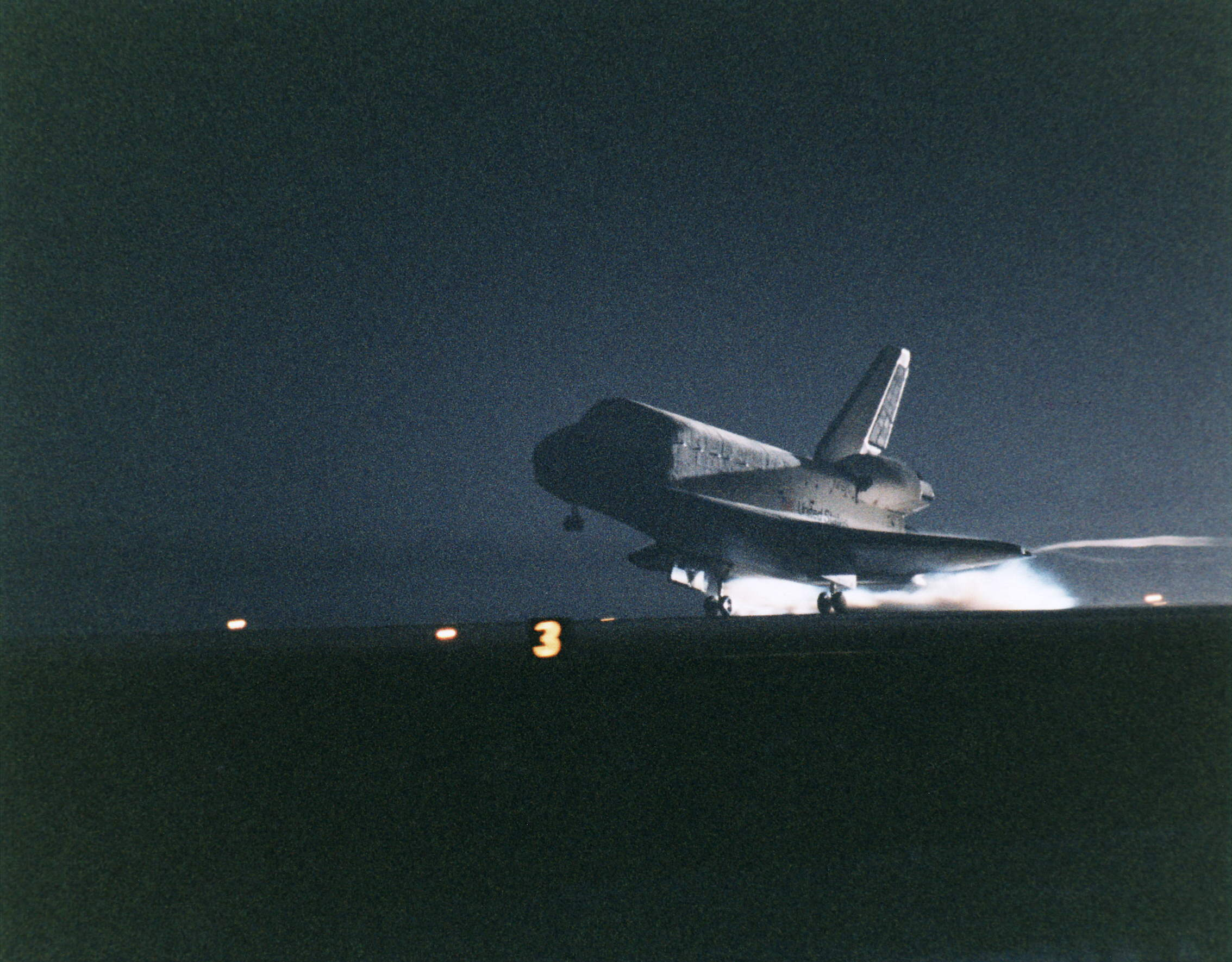 KENNEDY SPACE CENTER, Fla. -- The Space Shuttle orbiter Discovery touches down in darkness on Runway 15 of the KSC Shuttle Landing Facility, bringing to a close the 10-day STS-82 mission to service the Hubble Space Telescope (HST). Main gear touchdown was at 3:32:26 a.m. EST on February 21, 1997. It was the ninth nighttime landing in the history of the Shuttle program and the 35th landing at KSC. The first landing opportunity at KSC was waved off because of low clouds in the area. The seven-member crew performed a record-tying five back-to-back extravehicular activities (EVAs) or spacewalks to service the telescope, which has been in orbit for nearly seven years. Two new scientific instruments were installed, replacing two outdated instruments. Five spacewalks also were performed on the first servicing mission, STS-61, in December 1993. Only four spacewalks were scheduled for STS-82, but a fifth one was added during the flight to install several thermal blankets over some aging insulation covering three HST compartments containing key data processing, electronics and scientific instrument telemetry packages. Crew members are Mission Commander Kenneth D. Bowersox, Pilot Scott J. "Doc" Horowitz, Payload Commander Mark C. Lee, and Mission Specialists Steven L. Smith, Gregory J. Harbaugh, Joseph R. "Joe" Tanner and Steven A. Hawley. STS-82 was the 82nd Space Shuttle flight and the second mission of 1997